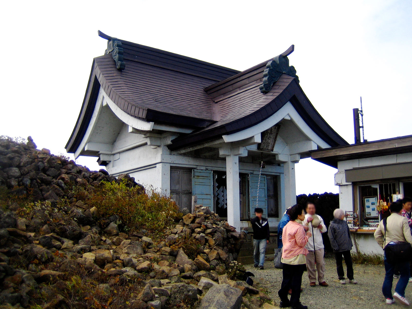 Kattamine Shrine at the top of Mt. Kattadake